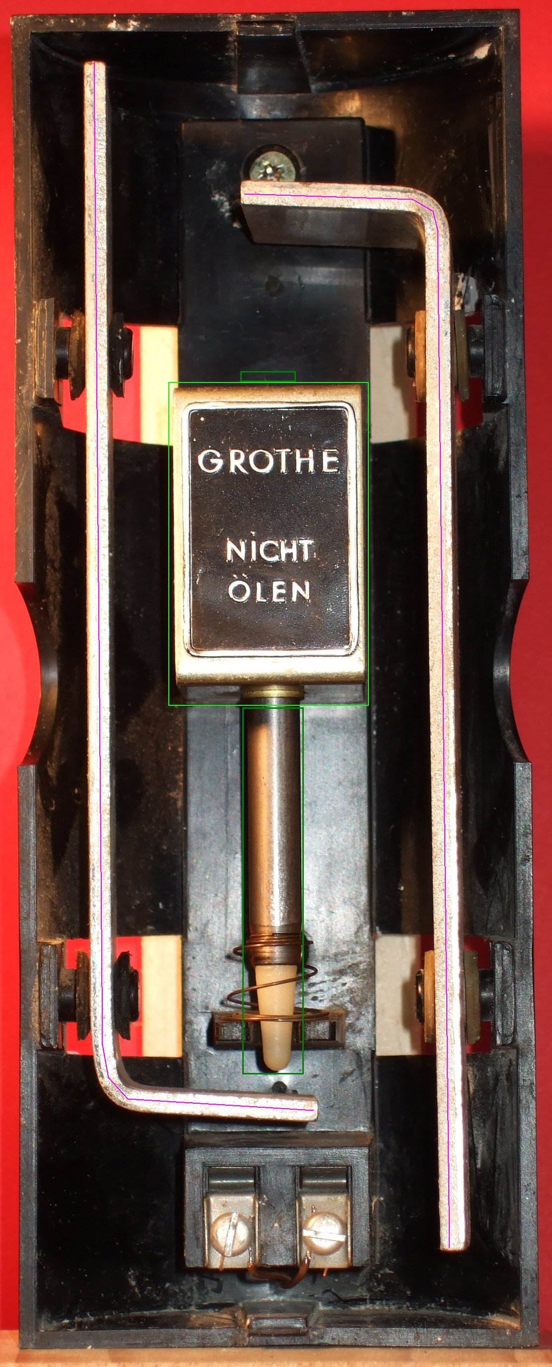 This door chime is composed of: thin clear green line: solenoid thin pink line: chimes thick dark green line: clapper Function: Without current applied the bell is as shown in the photograph. The clapper is with some distance to the lower chime. When you apply current, the solenoid lifts the clapper and the clapper strikes against the upper chime. As the solenoid is made to keep the clapper just below the upper chime, the clapper falls back a tiny bit and keeps in this position as long as current is applied to the solenoid. When there is no more current, the clapper falls down, the spring gets mechanical contact to its counterpart and decreases speed of the clapper, but the clapper still moves on and strikes the lower chime. Then the clapper is lifted a tiny bit by the spring and returns to initial position.